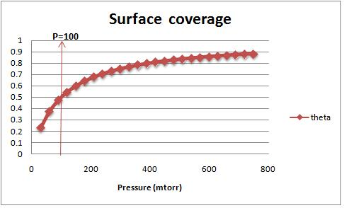 Surface coverage Vs Pressure ( created using Excel 2007)